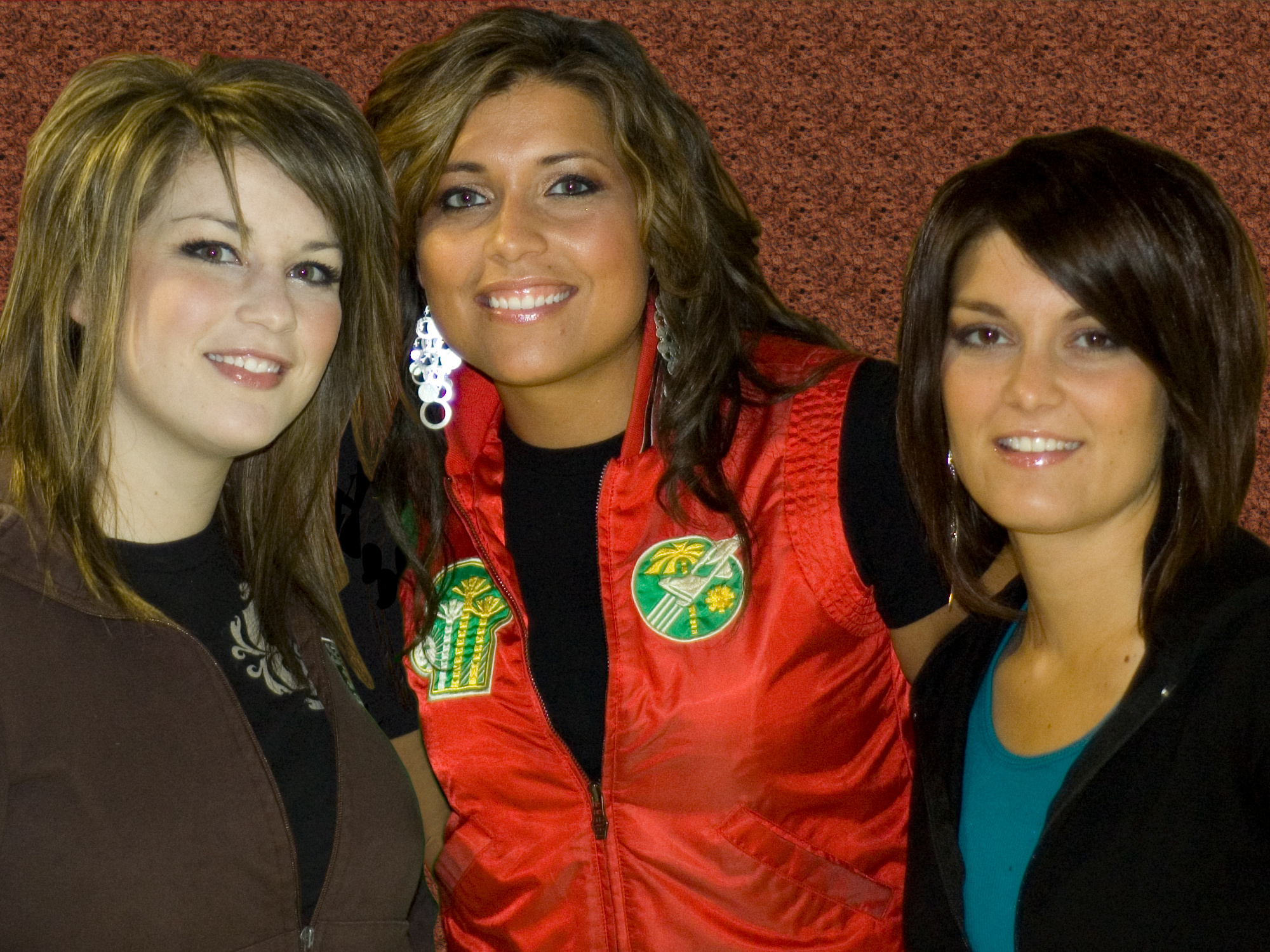 BarlowGirl in 2005. From left to right: Lauren, Rebecca and Alyssa Barlow.